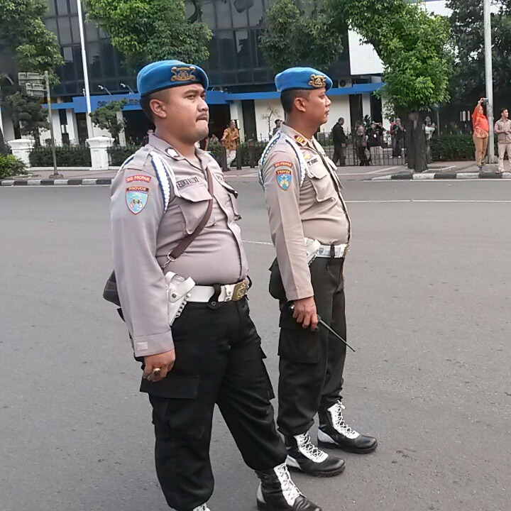 two provost police of the indonesian internal affairs personnel